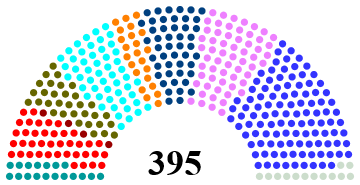 Diagram of the Moroccan 2011 assembly of representatives.